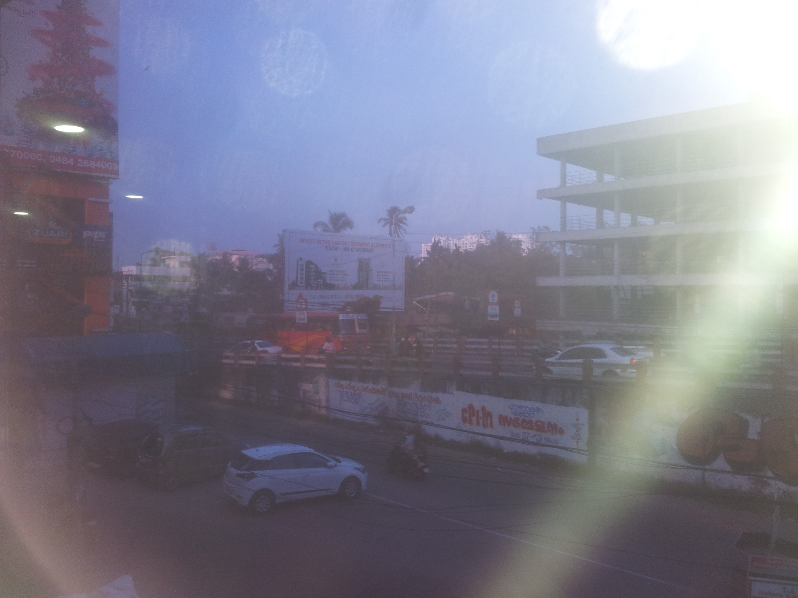 Kathrikadavu bridge